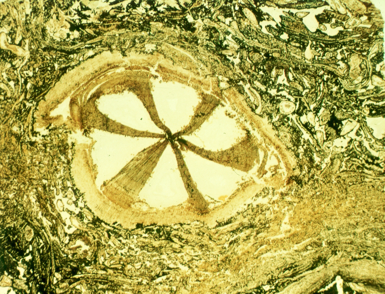 Cross section of chambered root of glossopterids Vertebraria australis from permineralized peat of the Late Permian Blackwater Coal Measures near Homevale Station, Queensland